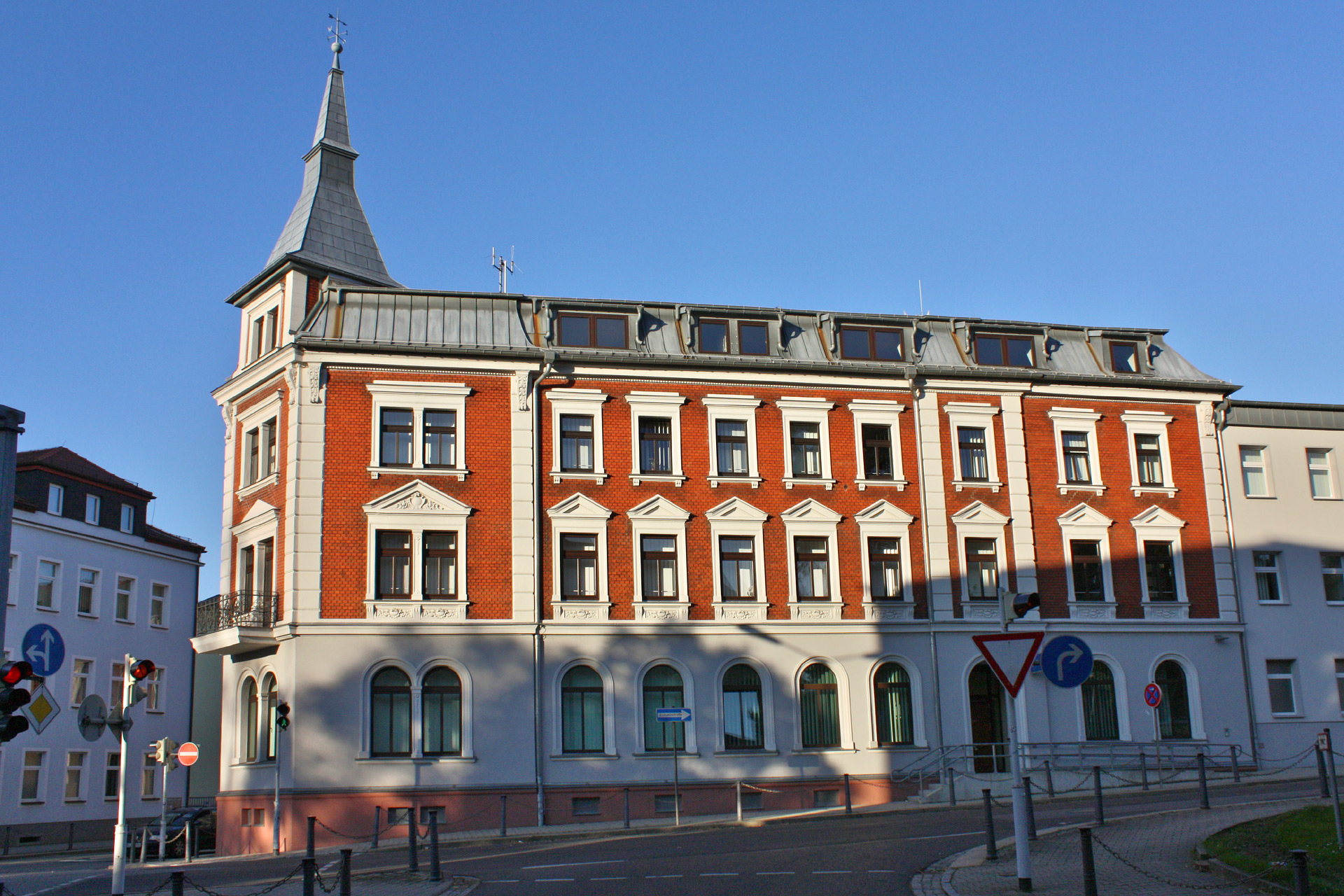 Police station in Bischofswerda in the district of Bautzen in Saxony, Germany.